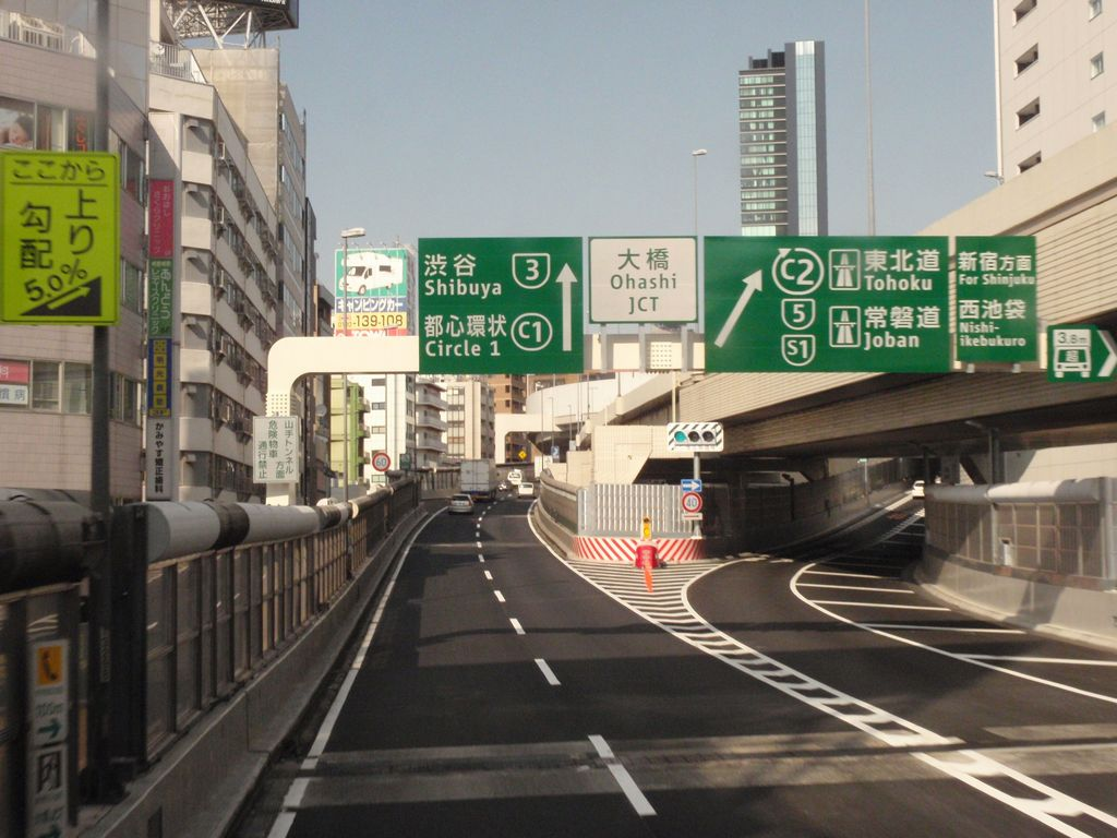 Metropolitan Expressway 3 Ohashi JCT